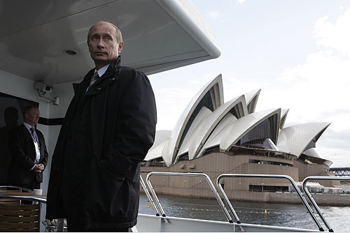 SYDNEY. Strolling along the Sydney harbour.